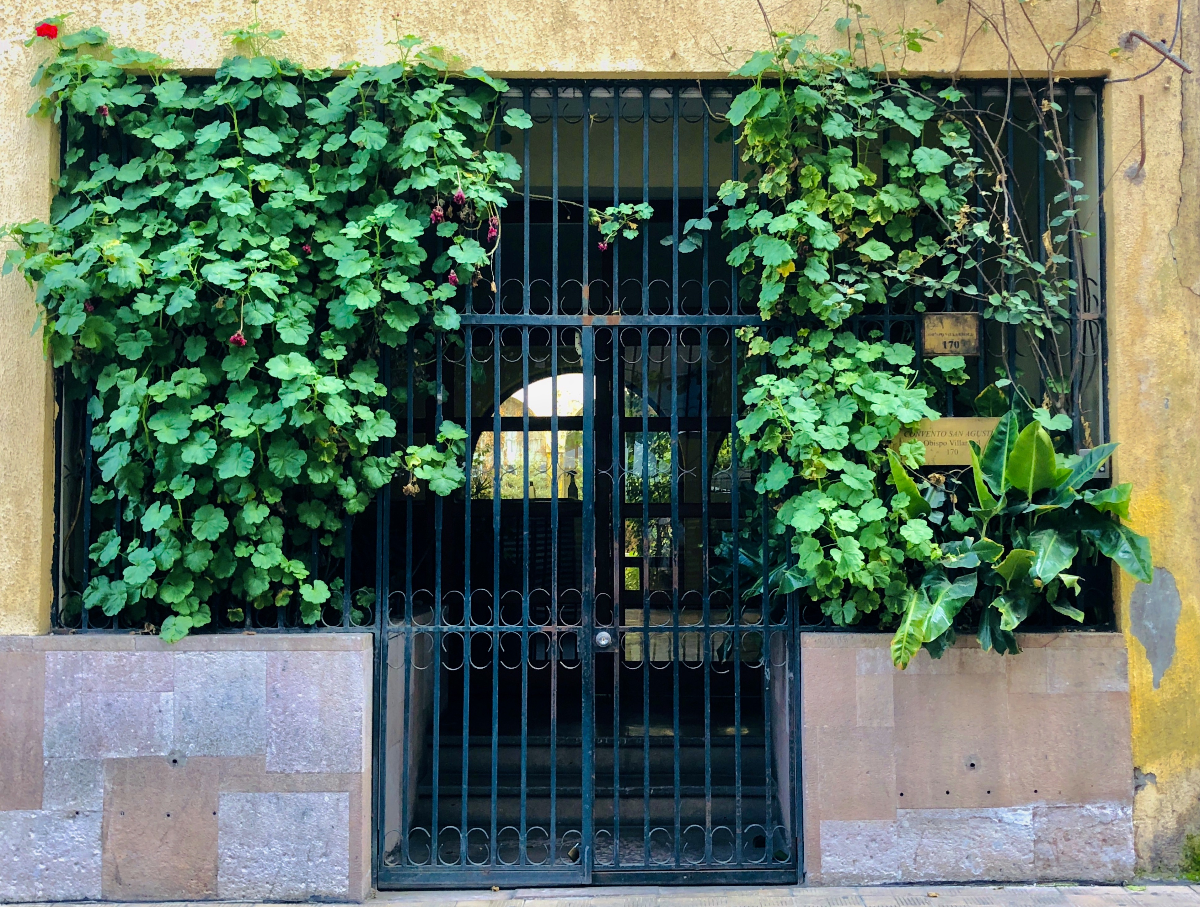 Current entrance to the convento of the Church of St. Augustine, at Obispo Villaroel 170 (or Agustinas 828 interior 170). Cloister and gardens in the background.